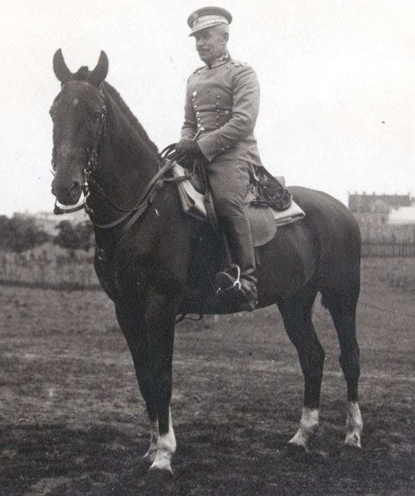 Mariusz Zaruski (1867-1941) - General of the Polish Army